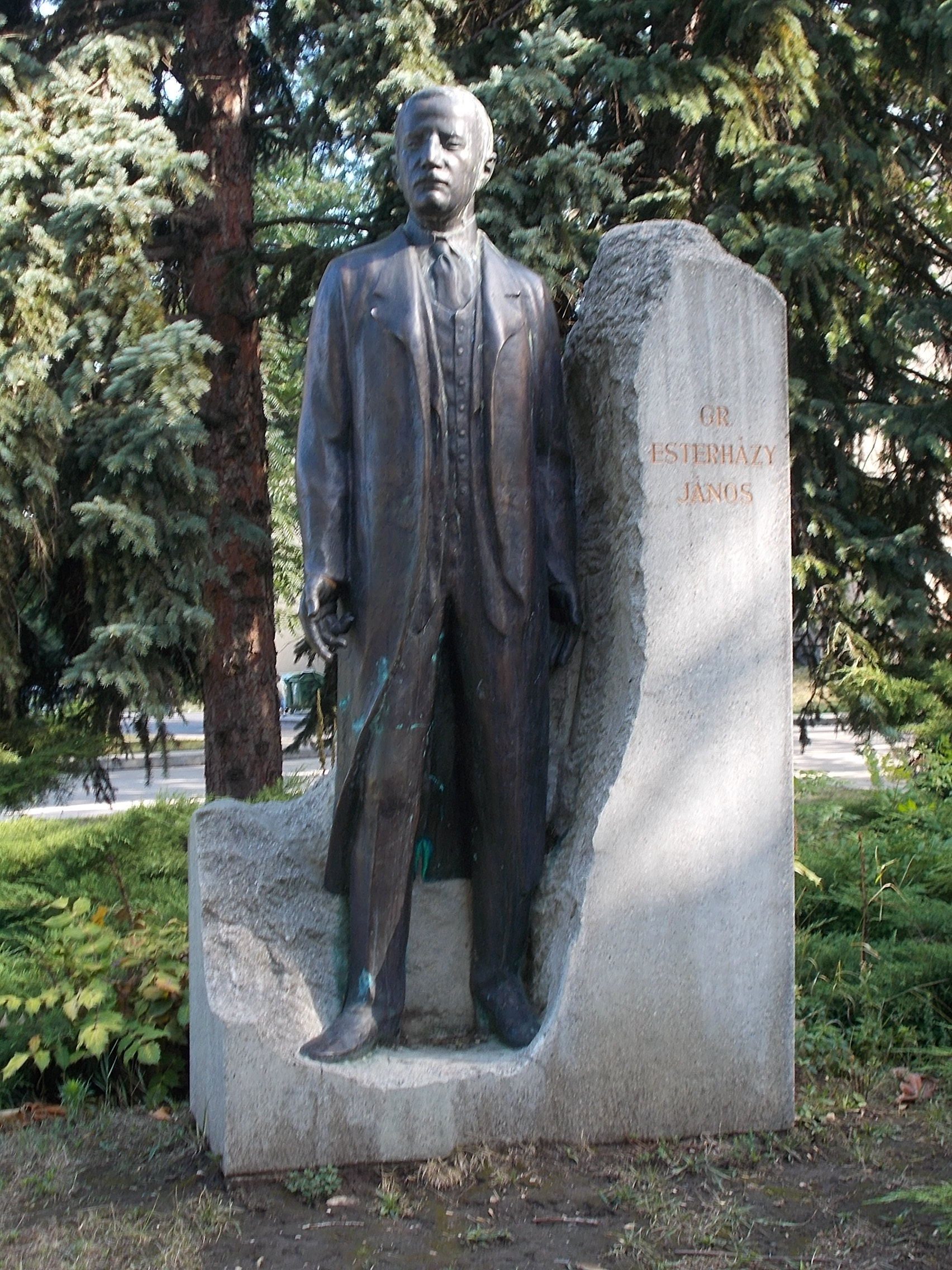 Statue of Count János Esterházy by László Péterfy ( 2008 works, Bronze ). - Béke Square-Győri út, Tatabánya, Komárom-Esztergom County, Hungary.